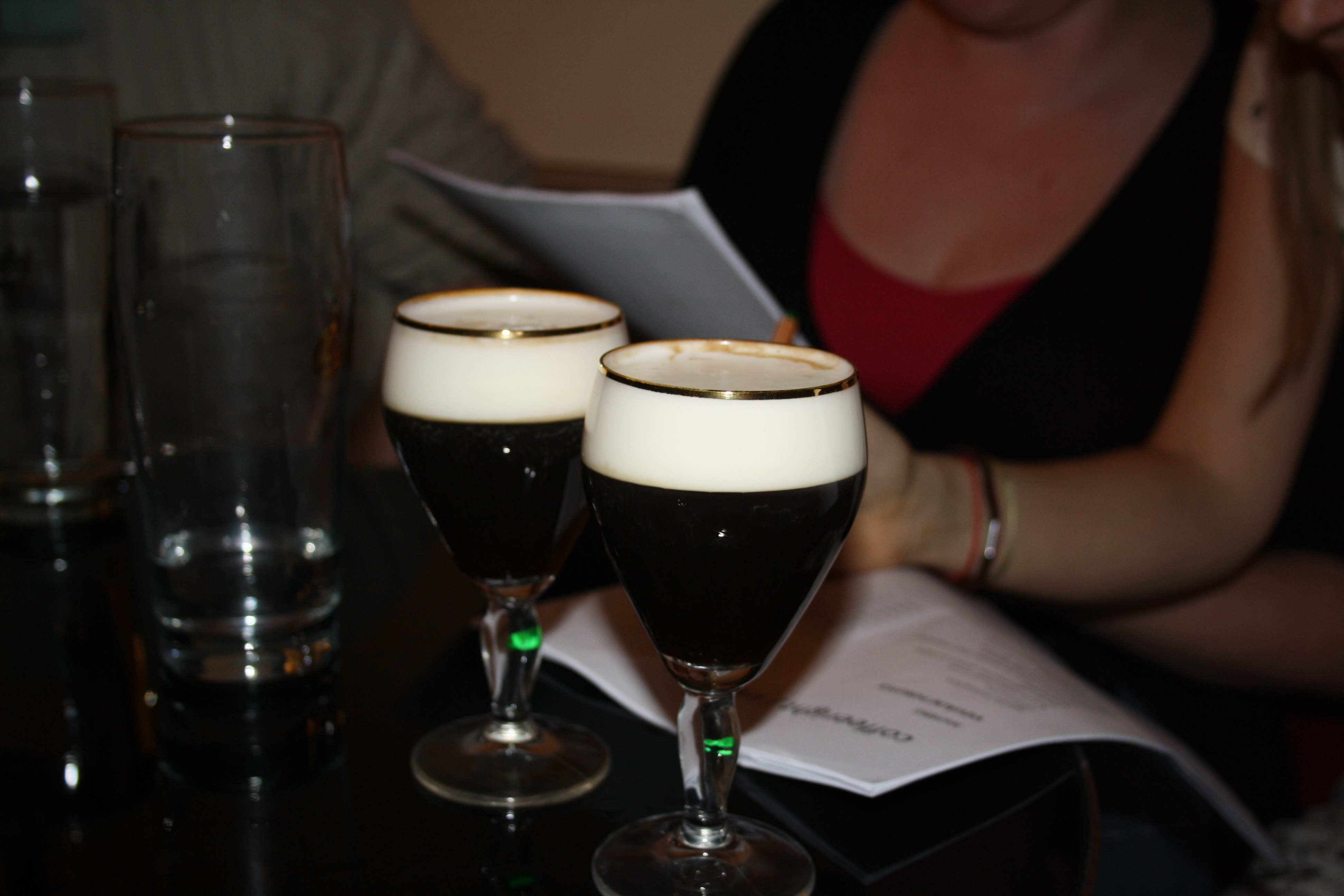 Competitive Irish coffee on Coffee Right in Brno, Czech Republic.